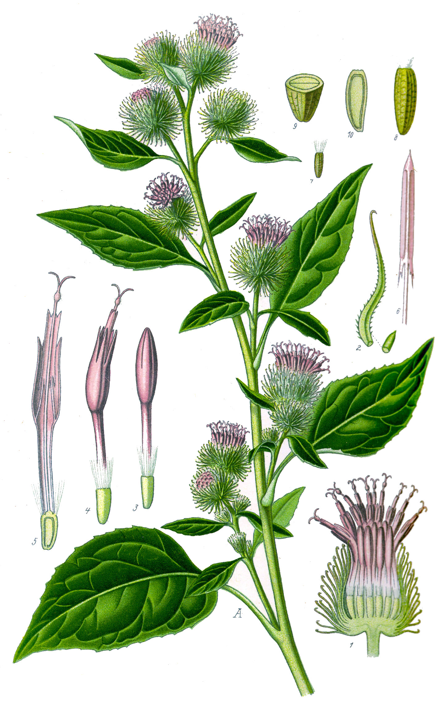 Name Arctium minor ;Family:Asteraceae Original book source: Prof. Dr. Otto Wilhelm Thomé Flora von Deutschland, Österreich und der Schweiz 1885, Gera, Germany Permission granted to use under GFDL by Kurt Stueber